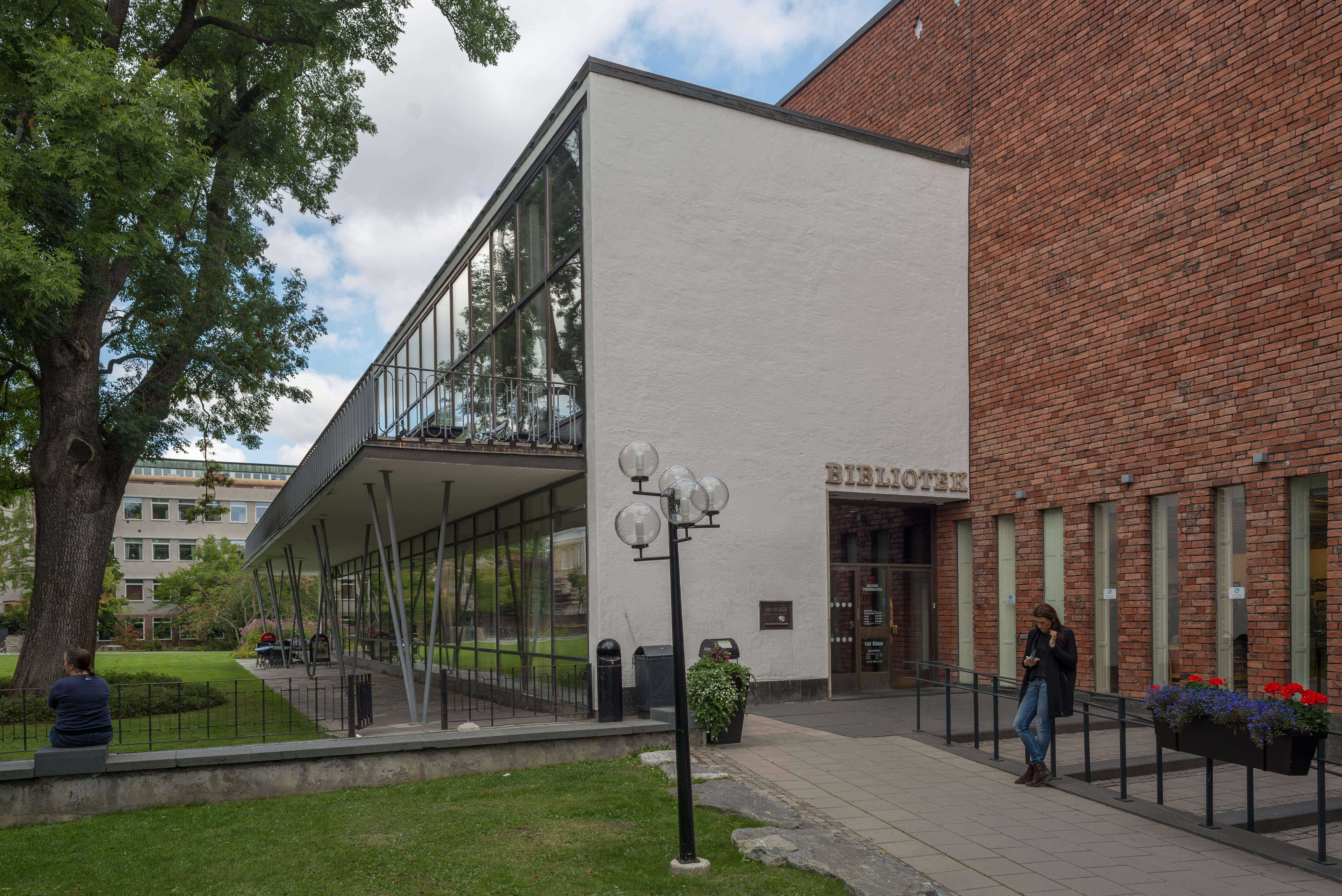 Västerås city library.